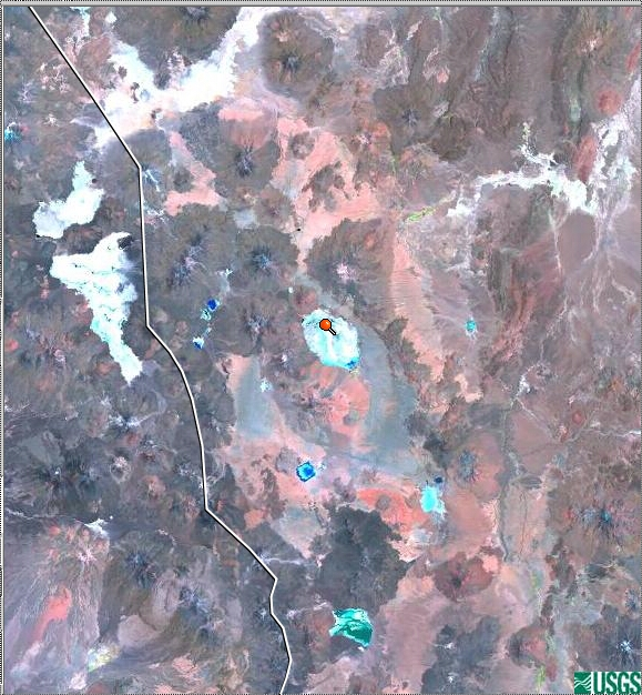 Landsat 7 image of the volcano Cerro Lípez